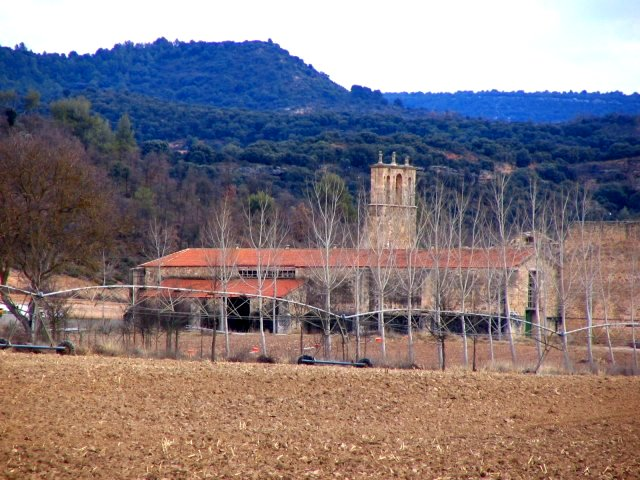 The remaining Spanish ruins of Santa Maria de Ovila, a monastery that was largely disassembled by an agent of William Randolph Hearst in 1931 and shipped to San Francisco, California. Hearst's agent left behind these less decorative buildings.